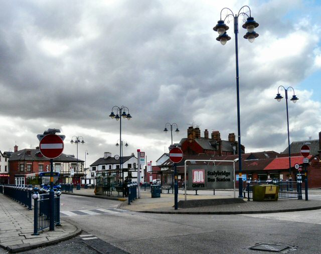 Stalybridge Bus Station. Little more than four bus shelters on a central island, it looks hardly much better now than it did in 1966. 552577.